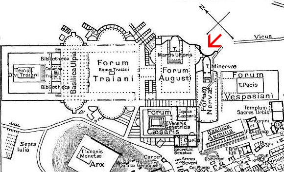 Detail of Map of Rome